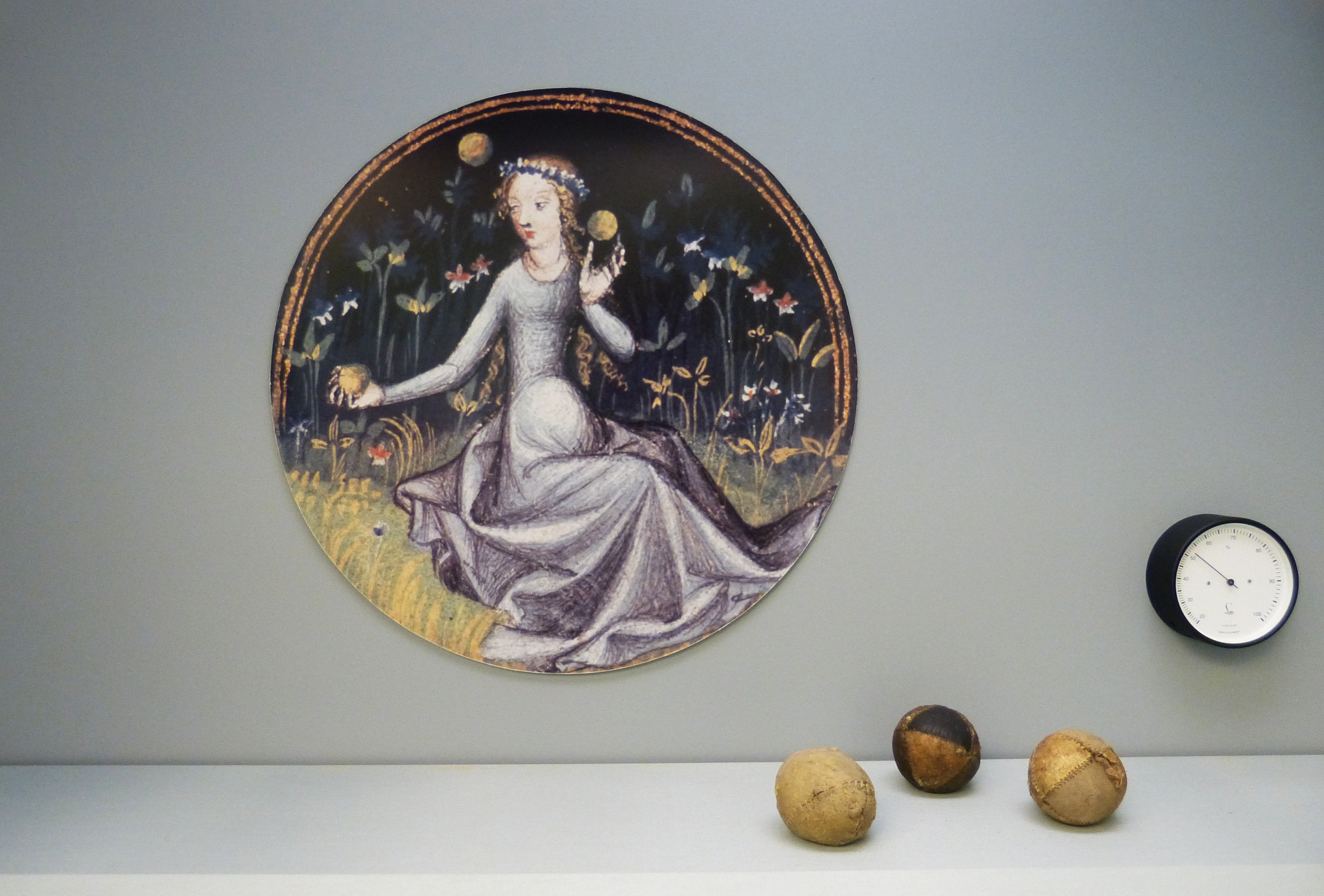 Historical juggling balls from the 15th / 16th. Century, made of leather, filled with sawdust. Fund from the Mühlberg-Ensemble, in the Allgäu-Museum Kempten. Behind this is the reproduction of a historical representation of a juggling woman.